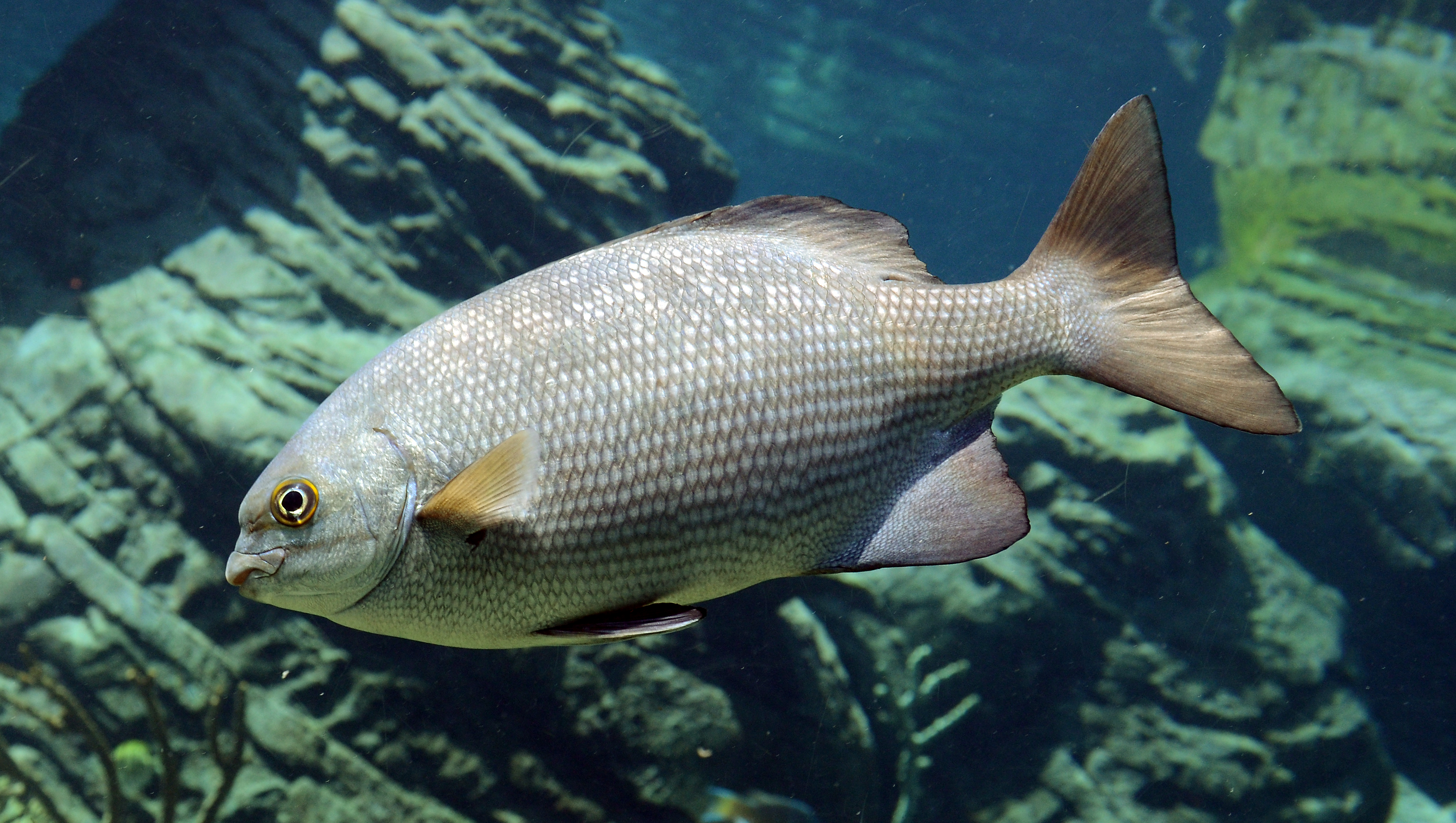 Kyphosus sp. in UShaka Sea World